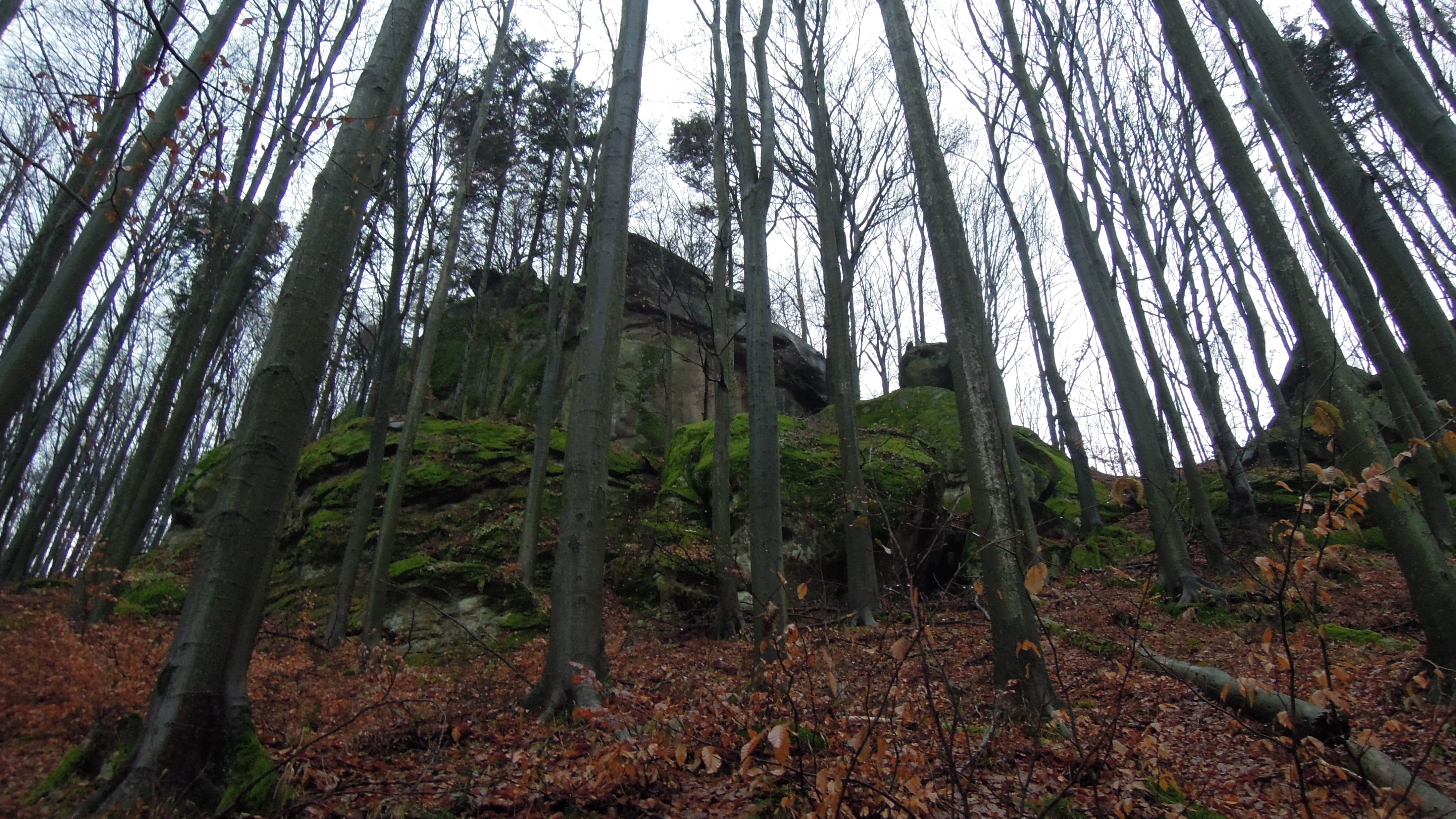 Klenov nature reserve, Vsetín District, Zlín Region, Czech Republic